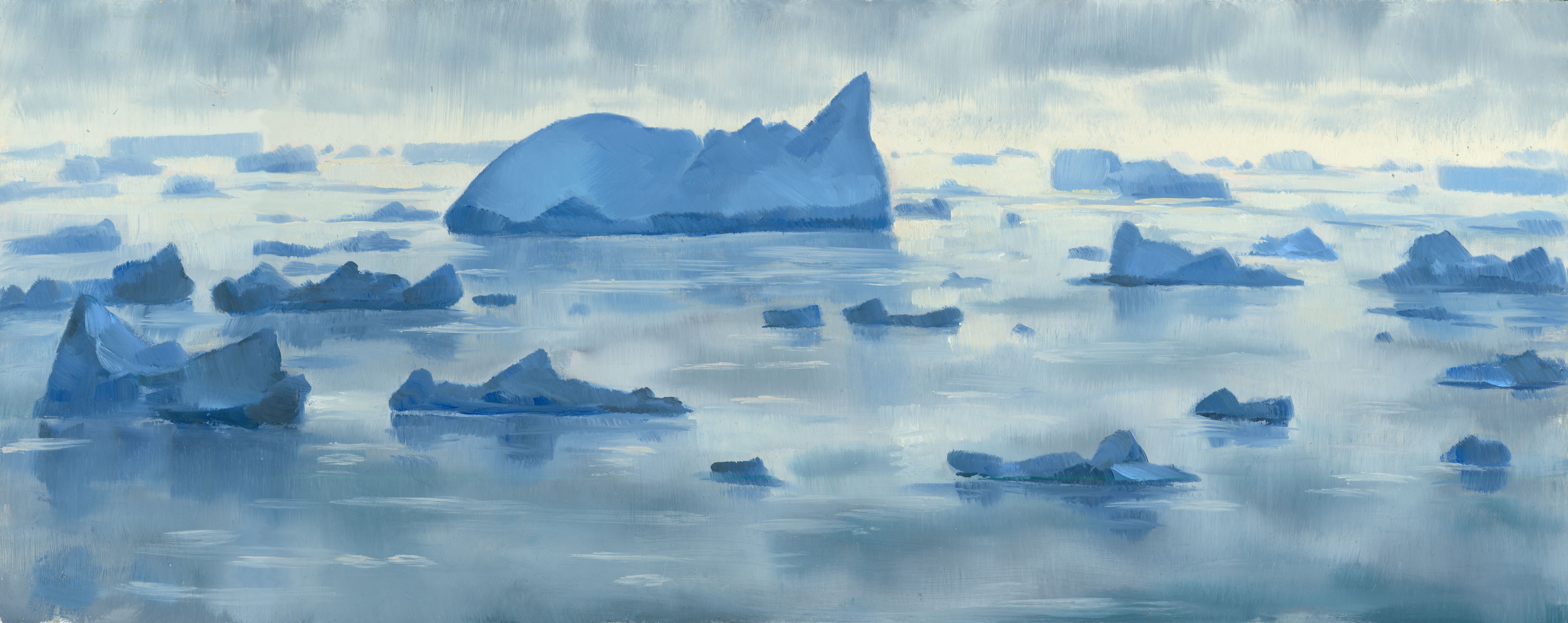 16th of March 2005 from the artists diary EISTAGE, painted and written during the Polarstern expedition ANT-XXII/3.